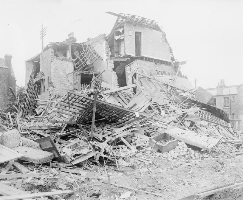 Photograph showing bomb damage to property in Streatham, London caused by the German Zeppelin raid on the night of 23 - 24 September 1916.